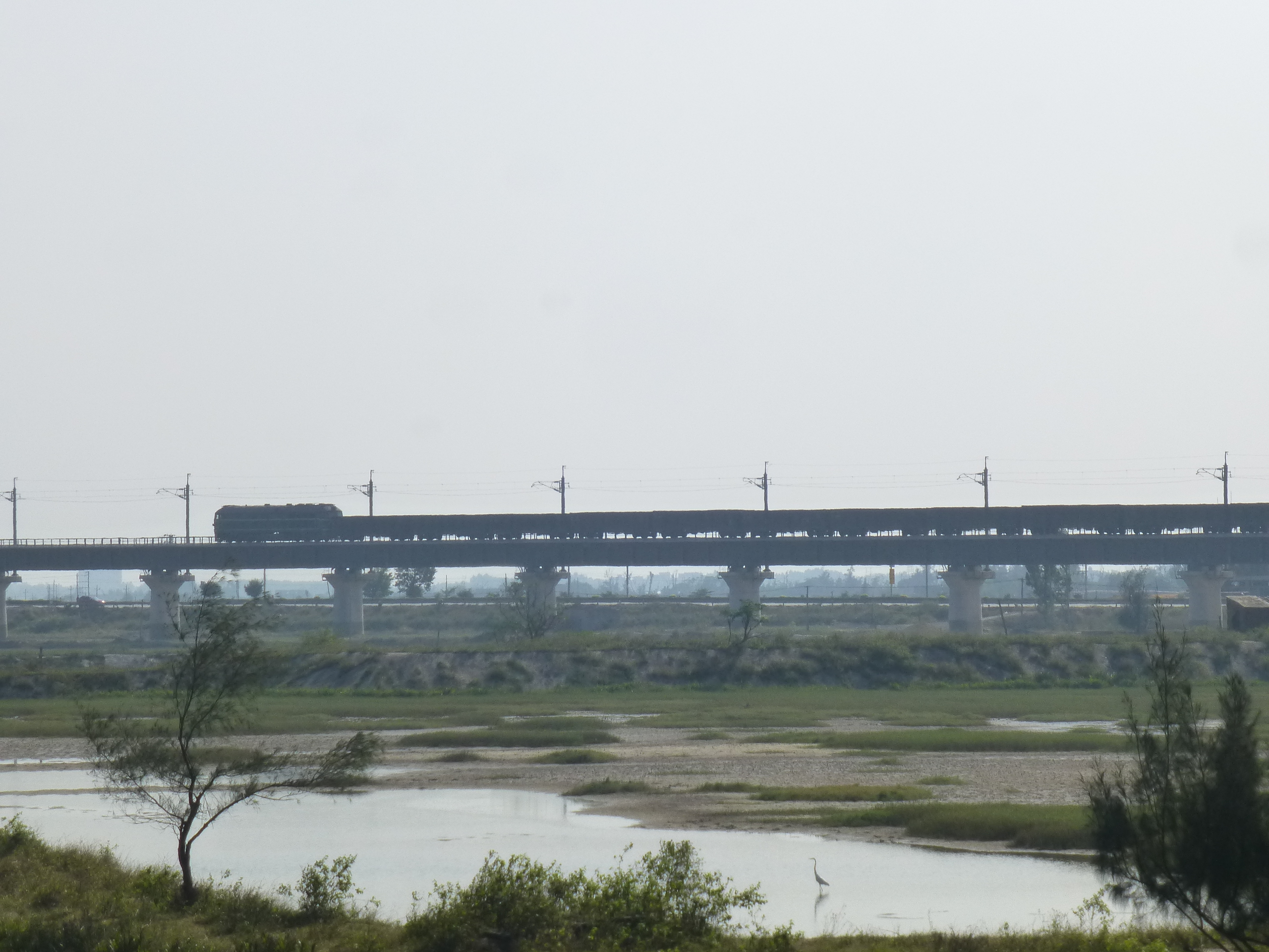 The north shore of Donghai Island, Guangdong. North of Taioqing and Dongnei villages. A major land reclamation project goes on here, extending the island's land area toward the north. Looking south, toward the Donghai Island Railway